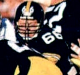 Pittsburgh Steelers' offensive lineman Ted Petersen pictured in an offensive play against the Los Angeles Rams during Super Bowl XIV.